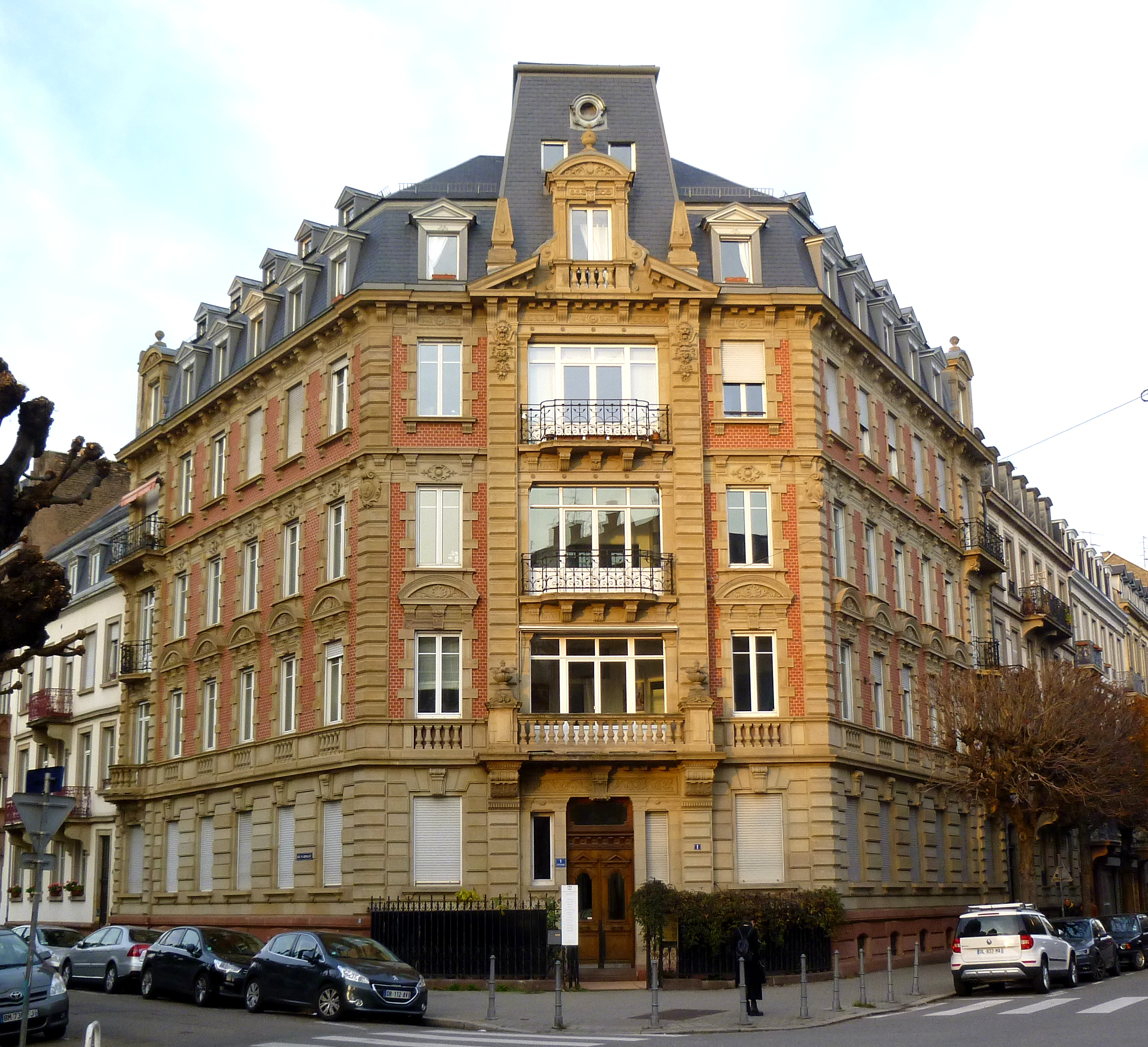 1896 Neo-Baroque house in Strasbourg, France